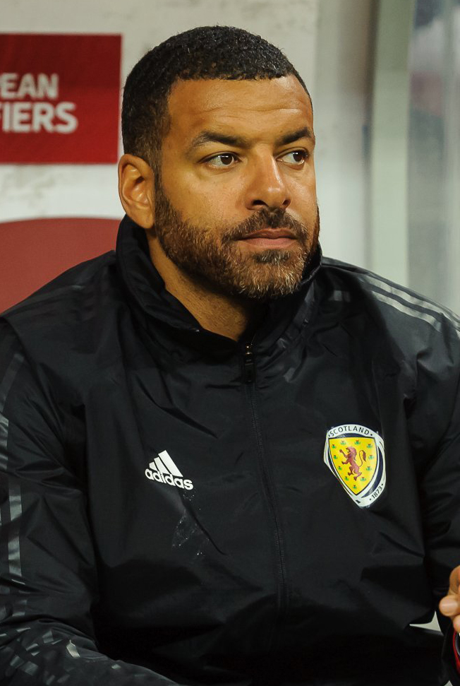 Former footballer and coach Steven Reid on 10 October 2019, during the 2020 UEFA European Championship qualifying match between Scotland and Russia in Moscow.